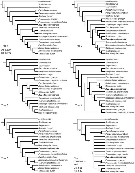 Results of the phylogenetic analyses, showing the relationships of Ziapelta sanjuanensis to other ankylosaurids.